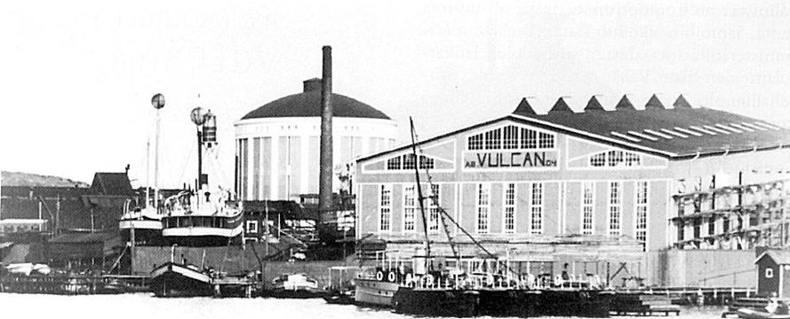 Aktiebolaget Vulcan shipyard in Turku, Finland. Lighthouse ship Storbrotten (sunken 1922) docked on the left. Gasometer in the background.